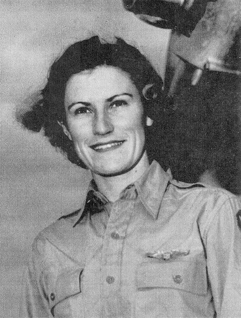 Iris C. Cummings Critchell on a BT-13 Ferry trip, wearing a Women's Auxiliary Ferrying Squadron (WAFS) uniform, Long Beach, California